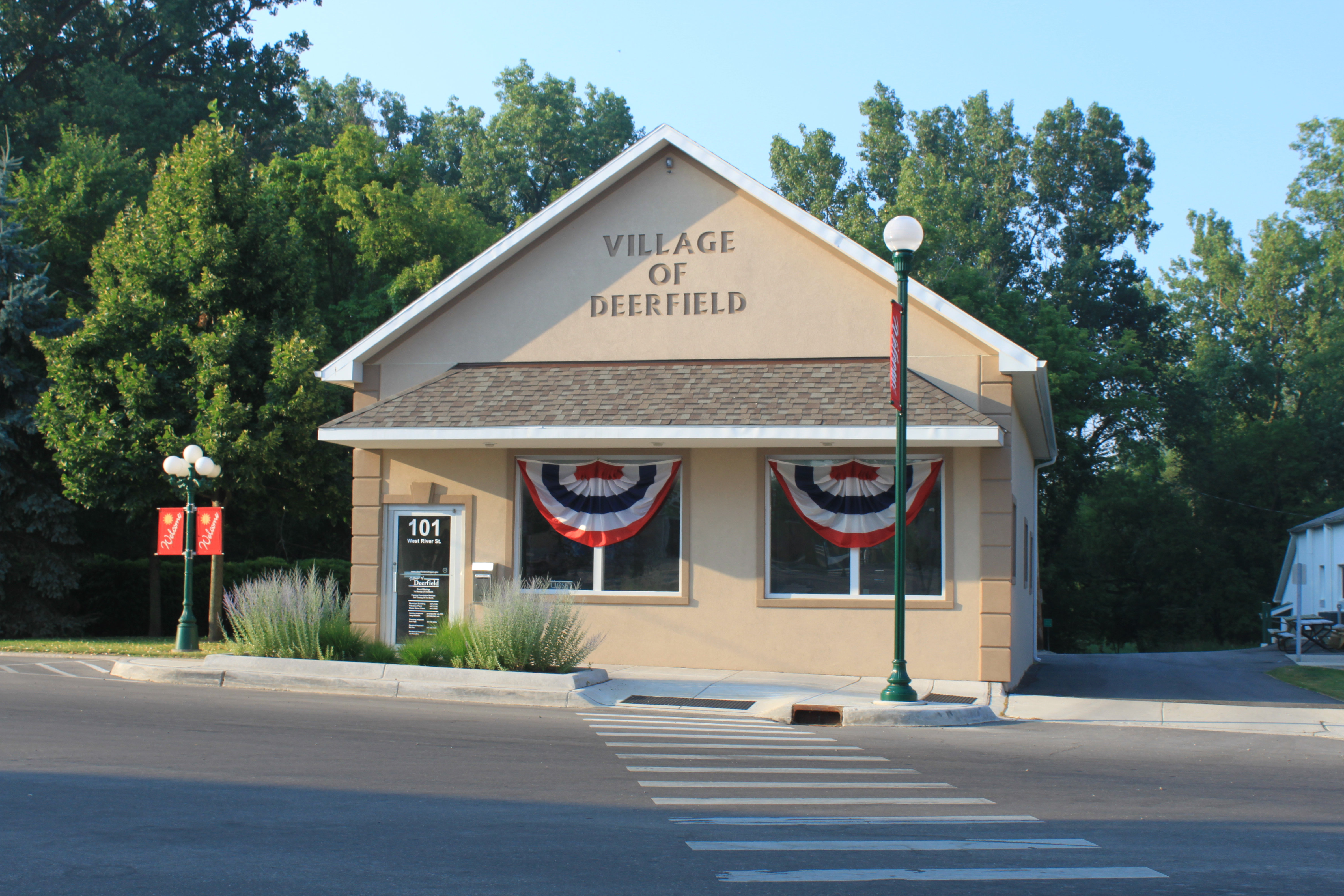 Deerfield Village Michigan Village Hall, 101 W. River Street